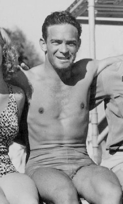 LA43 1937 Orig Photo FRED CADY HAROLD SMITH MICKEY RILEY Olympic Diving Champs